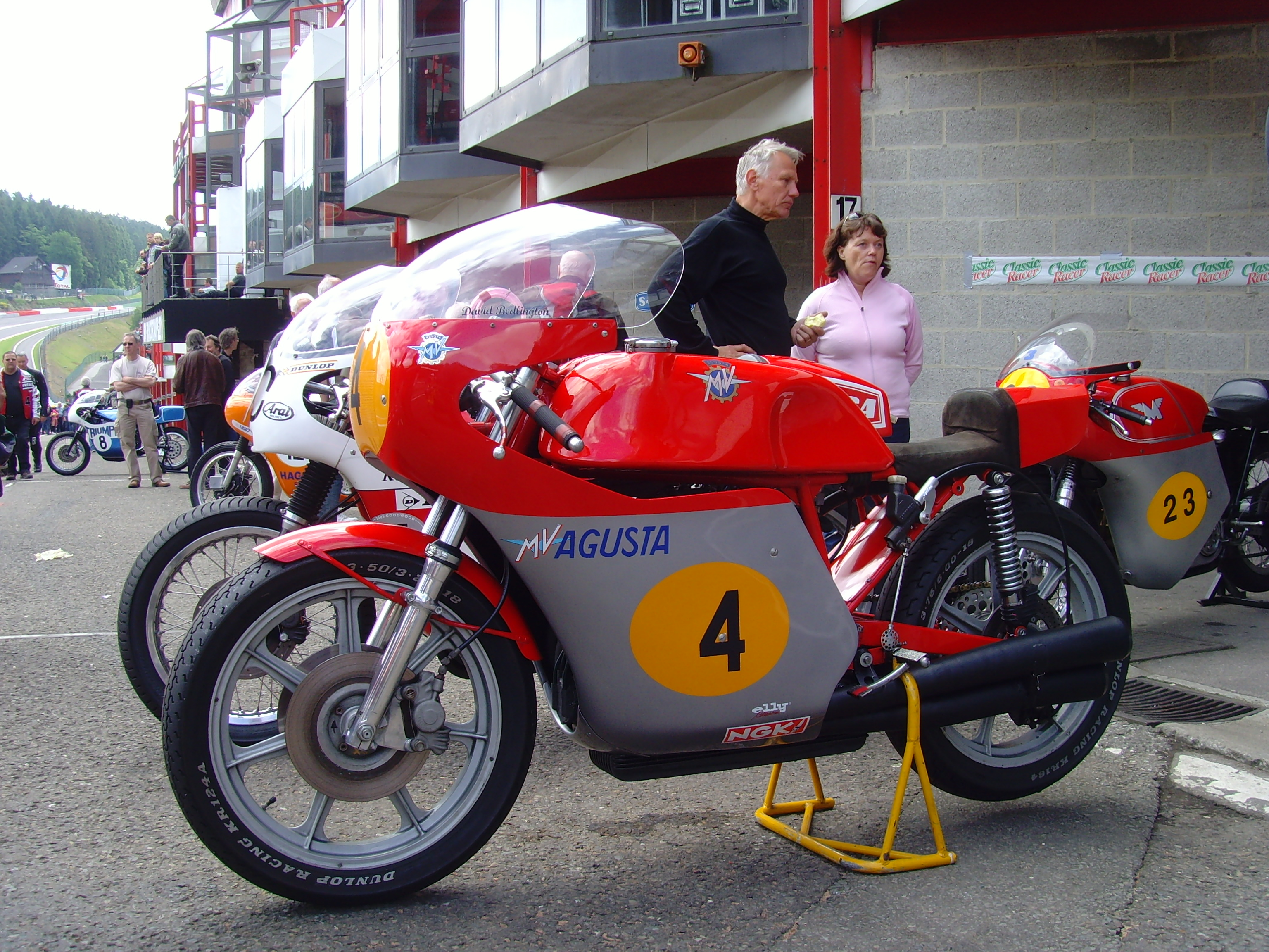 MV Agusta 500 GP, Phil Read, 1974